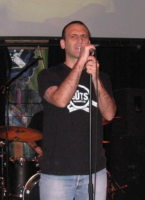 Ben Weasel (aka Ben Foster) performing at Reggie's Rock Club in Chicago